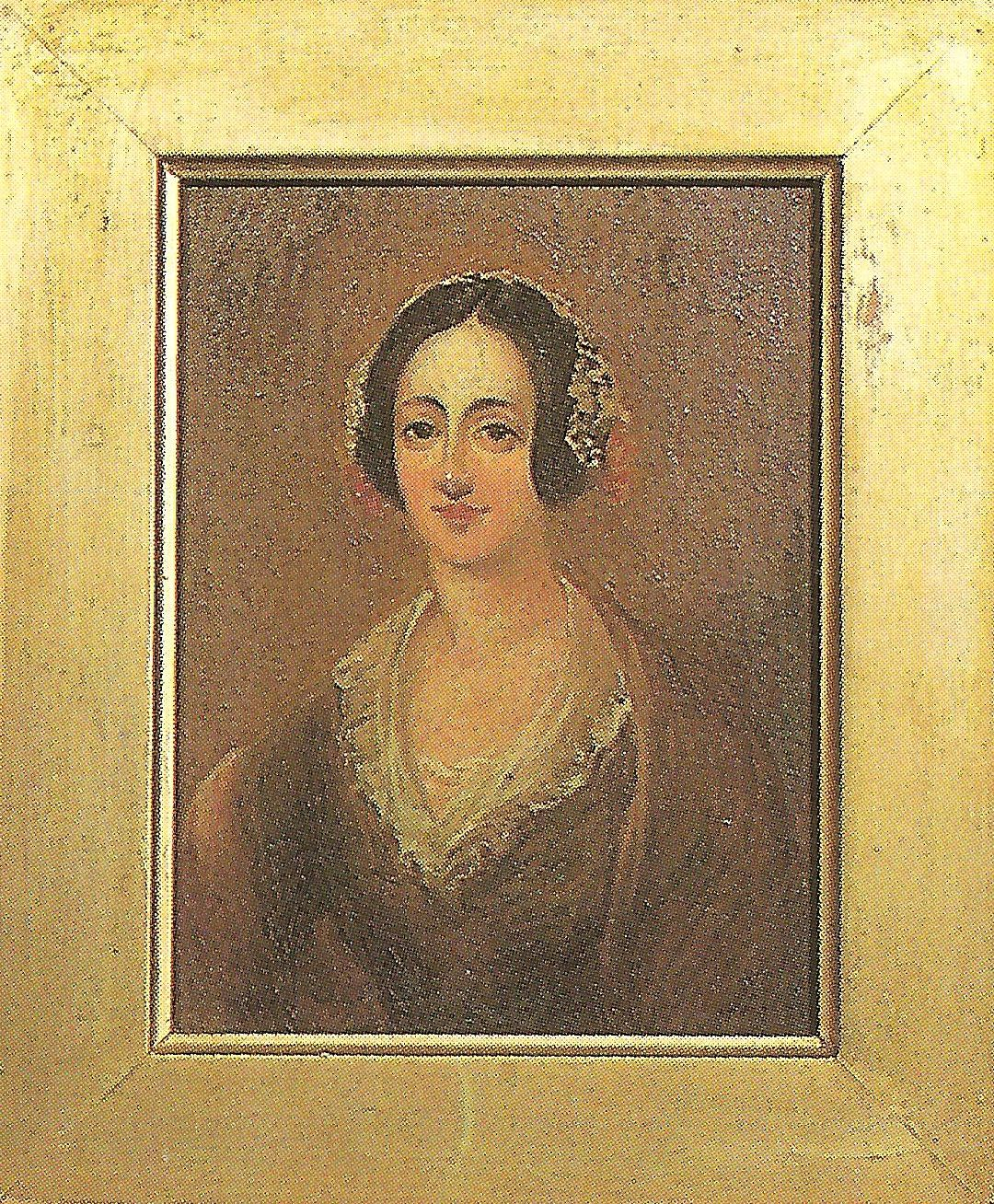 A portrait of Lady Eliza Grey, Sir George Grey's wife. Eliza never lived at Kawau Island as the couple separated in 1860. Although they were reunited briefly in London in 1896 the reconciliation was not a success, not surprising after a 36 year separation. The portrait of Eliza was bought in Wales in 1977 and later purchased for Mansion House.